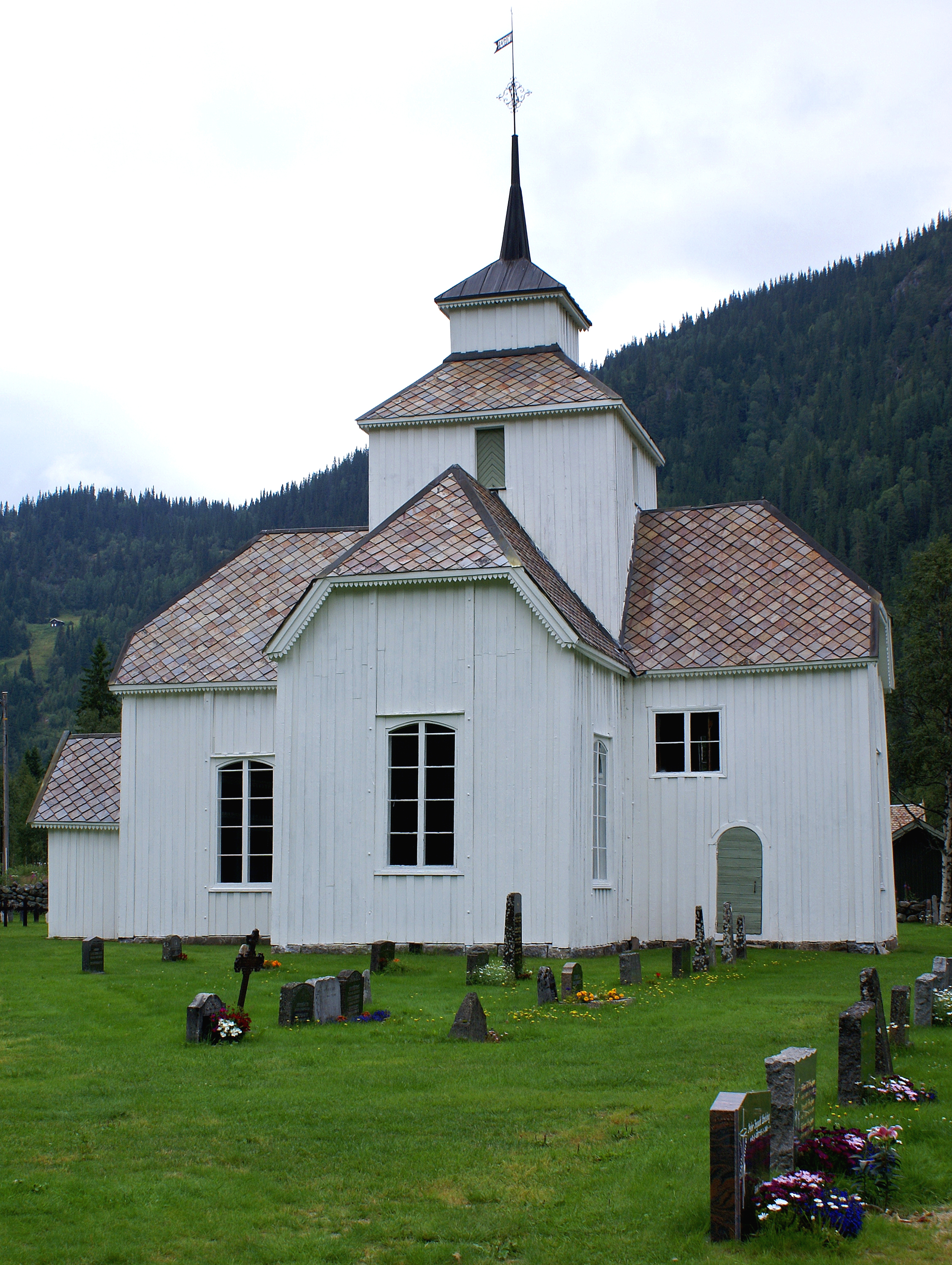 Åmotsdal church, build 1792 by Jarand Rønjom. On this place there used to be a stave church.